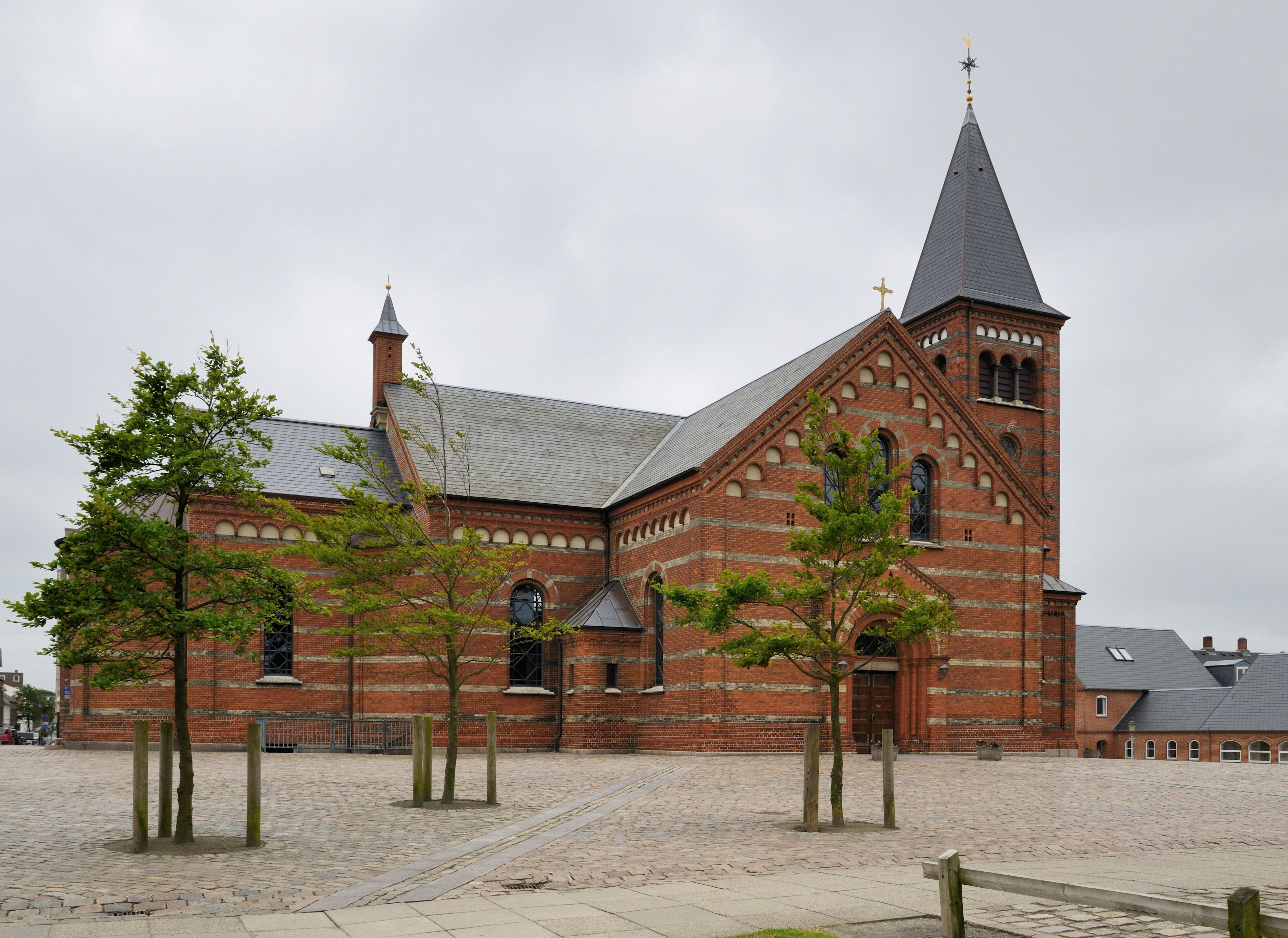 Esbjerg: Vor Frelsers Church